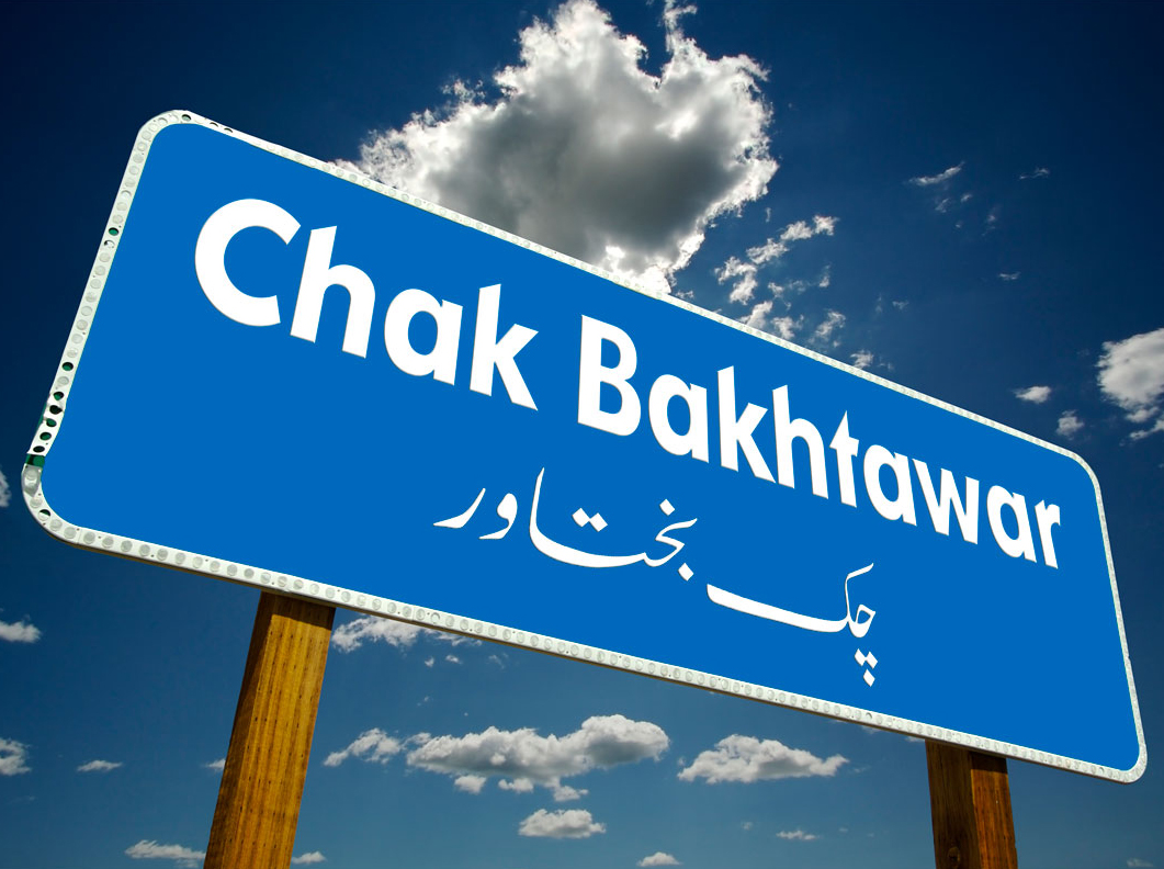 Chak Bakhtawar Sign Board